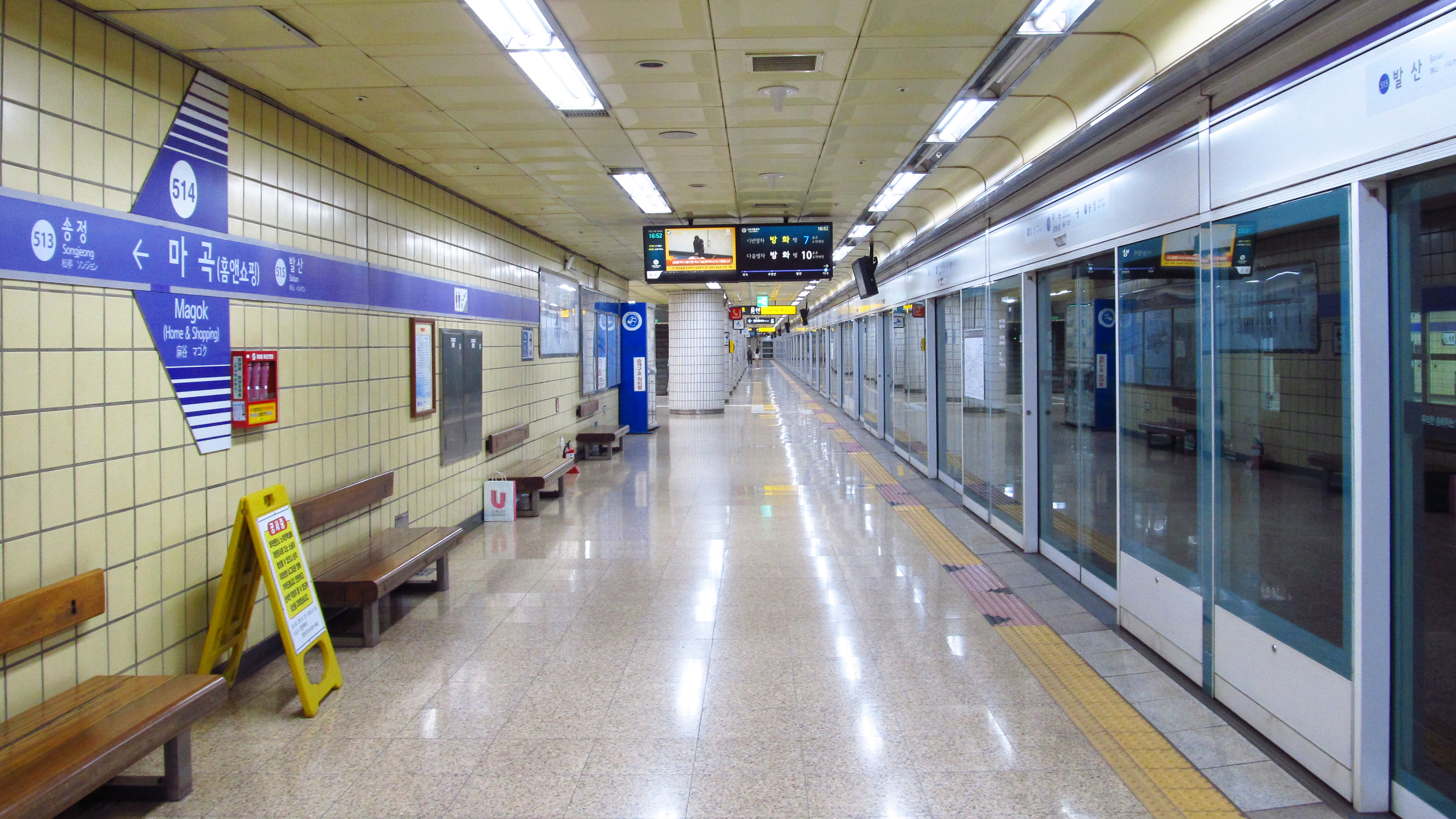 The platform at Magok Station on Seoul Subway Line 5 in Gangseo-gu, Seoul, Republic of Korea(South Korea)